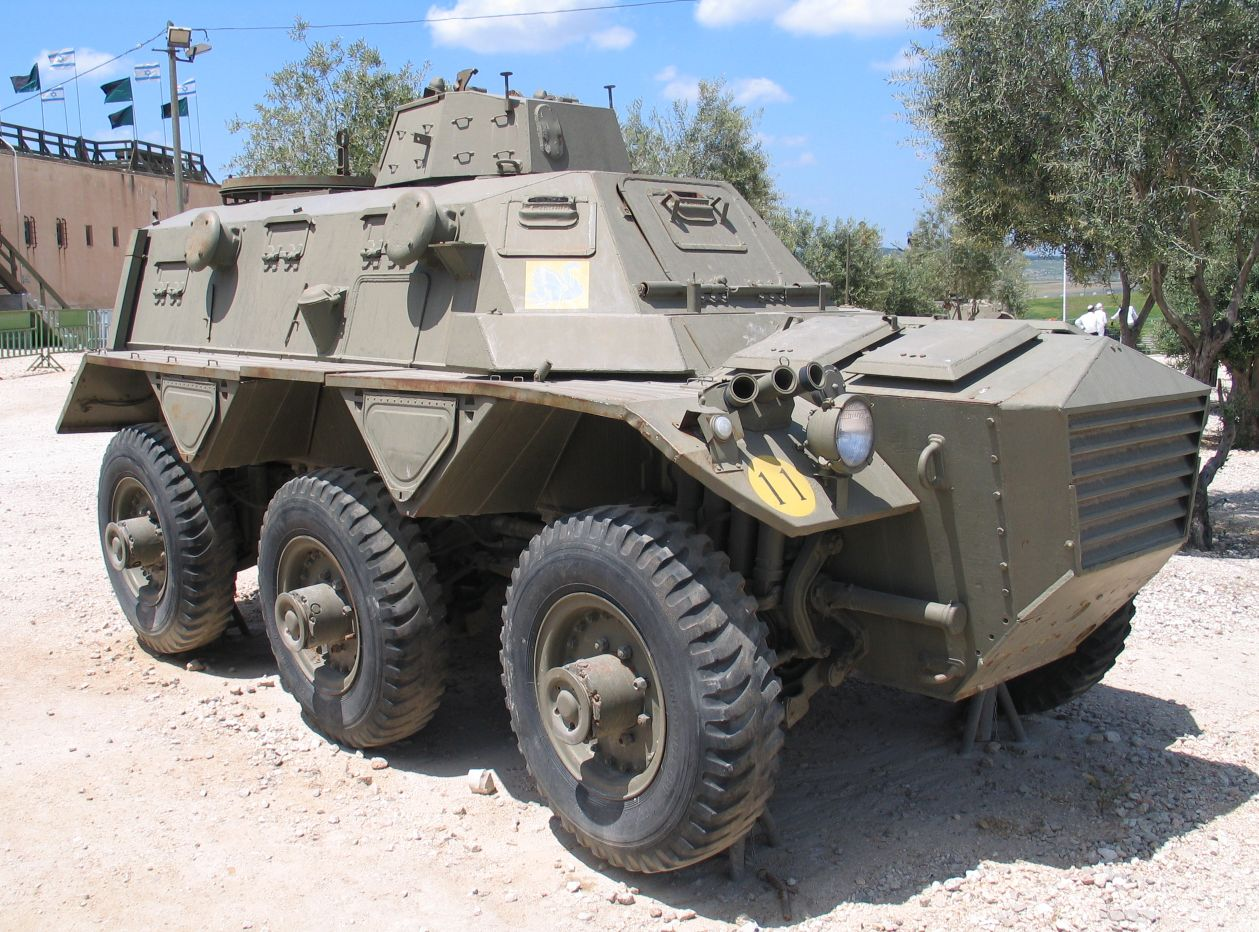 Description: Alvis FV 603 Saracen APC in Yad la-Shiryon Museum, Israel. 2005. Source: Photo by me, User:Bukvoed.